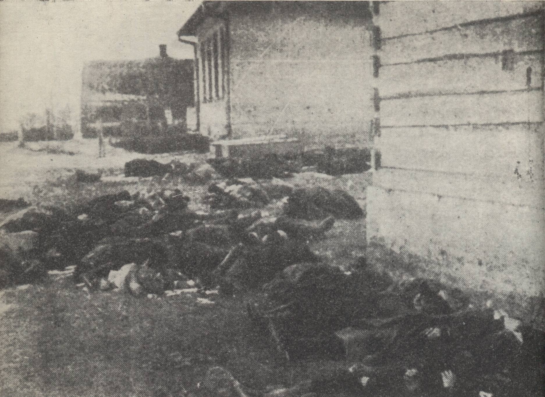 Polish village Sochy in Zamość county, burned by German occupants. On 1st June 1943 Wehrmacht troops destroyed Sochy and murdered 183 of its inhabitants. This photo was taken after the massacre.